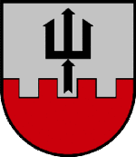 Source: "Fahnen-Gärtner GmbH, Mittersill" This file depicts a coat of arms. The composition of coats of arms are generally public domain with respect to copyright laws, and may be reproduced freely. This corresponds to the international traditional usage, and is explicitly stated in some national copyright laws. Some compositions, of more recent origin, may be copyrighted. This is not a valid license as such, being a "public domain" statement for the coat of arms definition only. It must be completed with the copyright tag associated to the picture creation. See Commons:Coats of arms for further information. Please note that this applies only to the coat of arms definition (composition / description). The representation of a coat of arms is an artistic creation, subject as such to copyright laws. Restriction of use - Legal notice: Most of the time, the usage of coats of arms is governed by legal restrictions, independent of the status of the depiction shown here. A coat of arms represents its owner. Though it can be freely represented, it cannot be appropriated, or used in such a way as to create a confusion with or a prejudice to its owner. Usage on Commons: Please provide licence information for the coat of arm representation, information for the author of the picture, and the source if not self-made work. This image is in the public domain according to Austrian copyright law because it is part of a law, ordinance or official decree issued by an Austrian federal or state authority, or because it is of predominantly official use. (§7 UrhG) To uploader: Please provide where the image was first published and who created it.